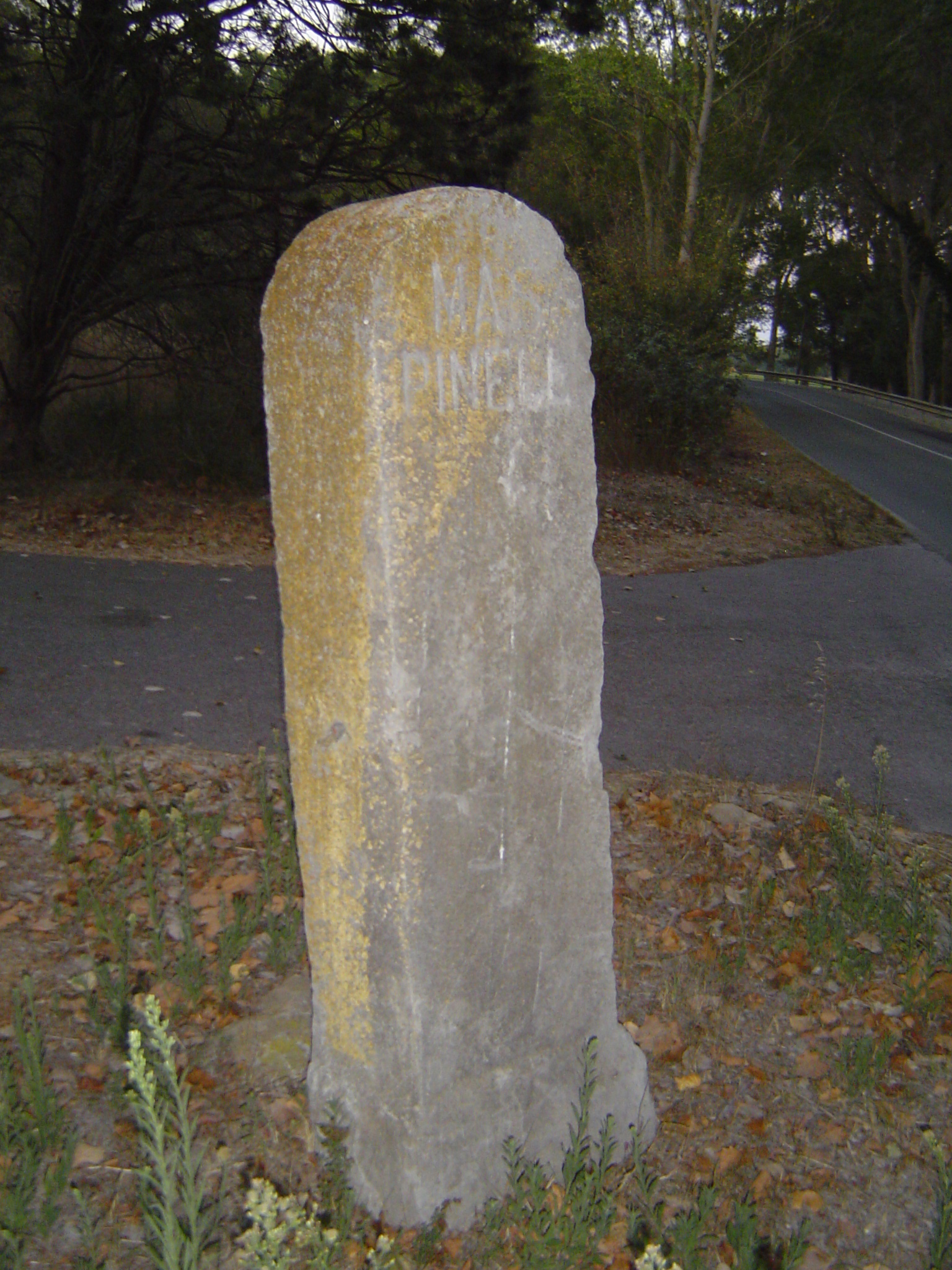 Mas Pinell milestone (Torroella de Montgrí, Baix Empordà, Catalonia).